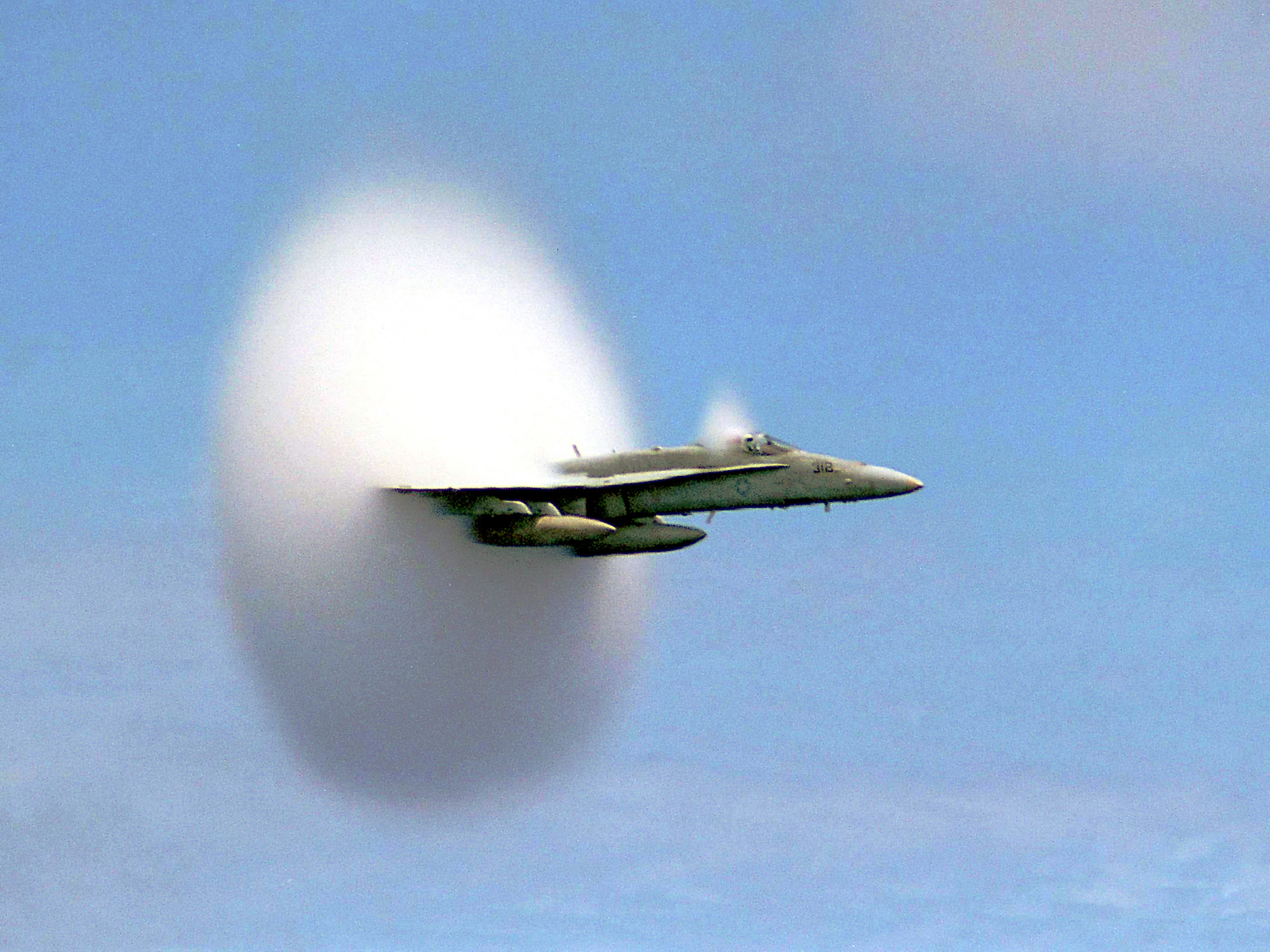 Off the coast of Pusan, South Korea: An F/A-18C Hornet assigned to Strike Fighter Squadron One Five One (VFA-151) breaks the sound barrier in the skies over the Pacific Ocean. VFA-151 is deployed aboard USS Constellation (CVN 64). The image was an Astronomy Picture of the Day on August 19, 2007. A cloud forms as this F/A-18 Hornet aircraft speeds up to supersonic speed. Aircraft flying this fast push air up to the very limits of its speed, forming what's called a bow shock in front of them. Similar bow shocks are also found in a variety of forms in space, and new research suggests they may contribute to heating of the material around them.